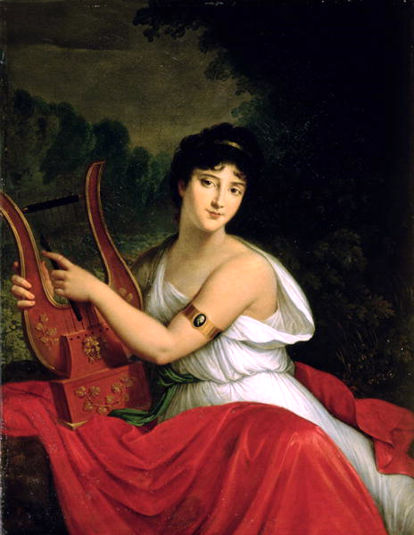 Portrait of Eleonore Denuelle de la Plaigne, a mistress of Napoleon I